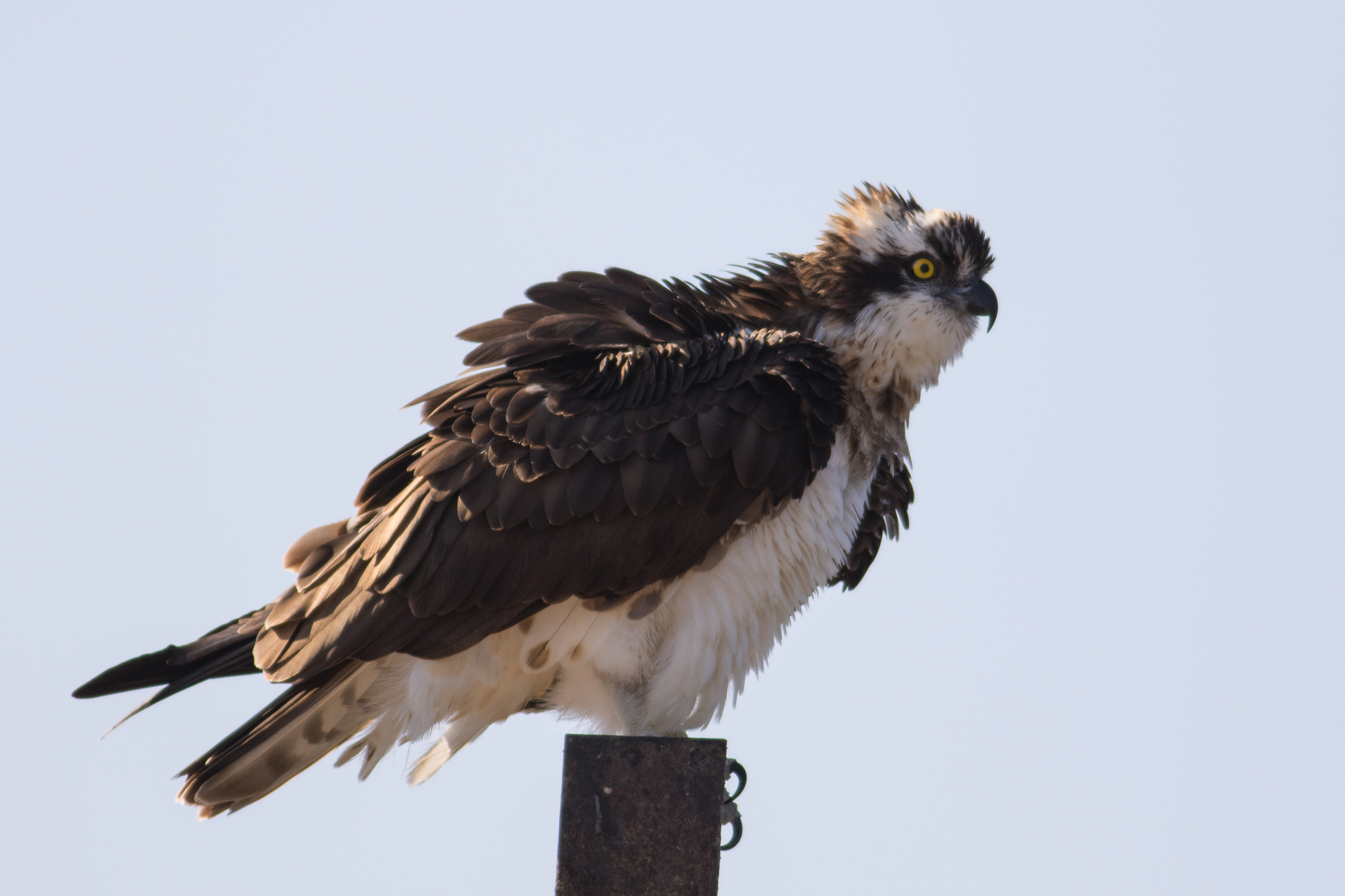 Osprey, Valley of Springs Region, Israel.